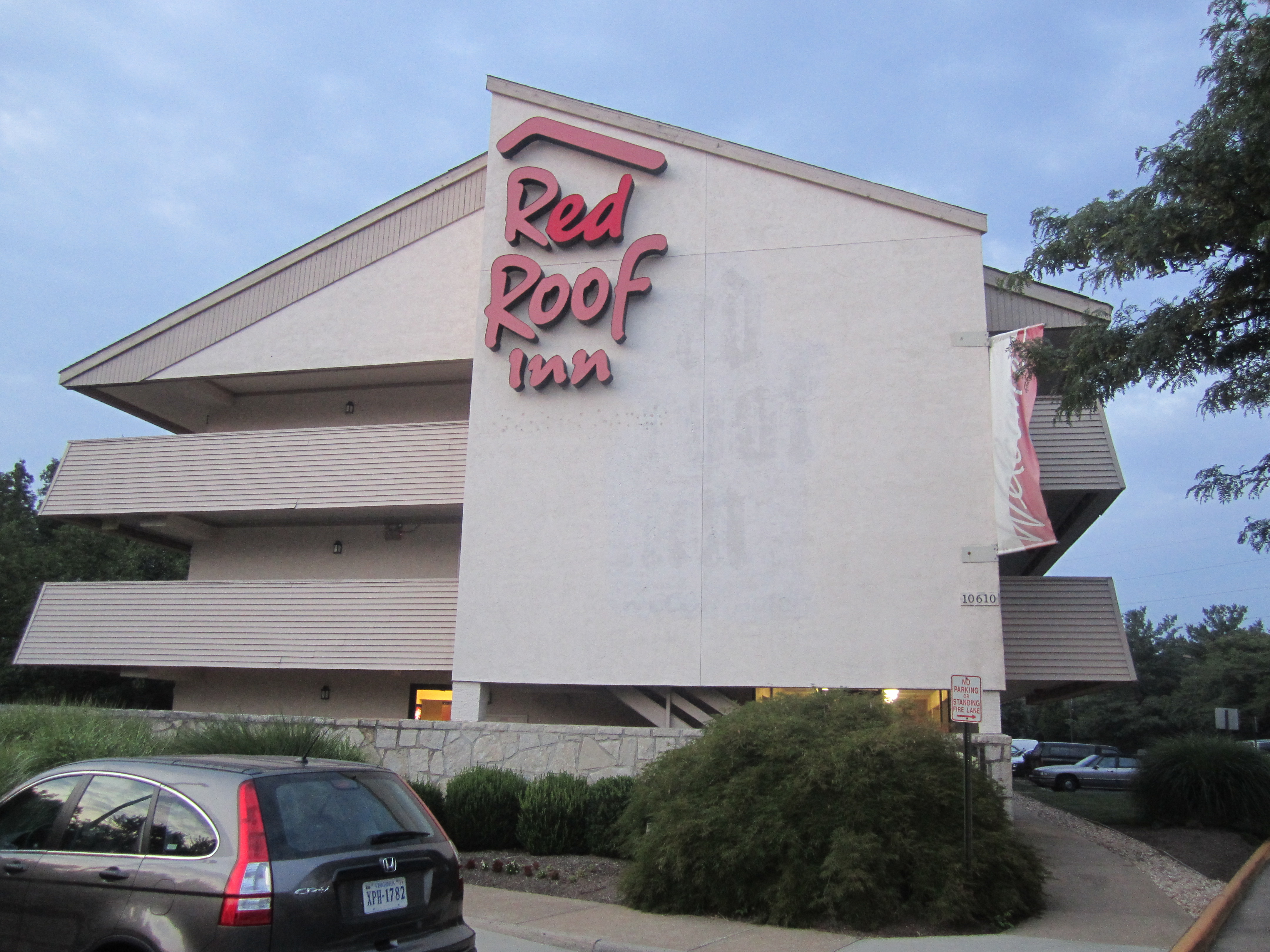 I took photo with Canon camera of Red Roof Inn, Manassas, VA.